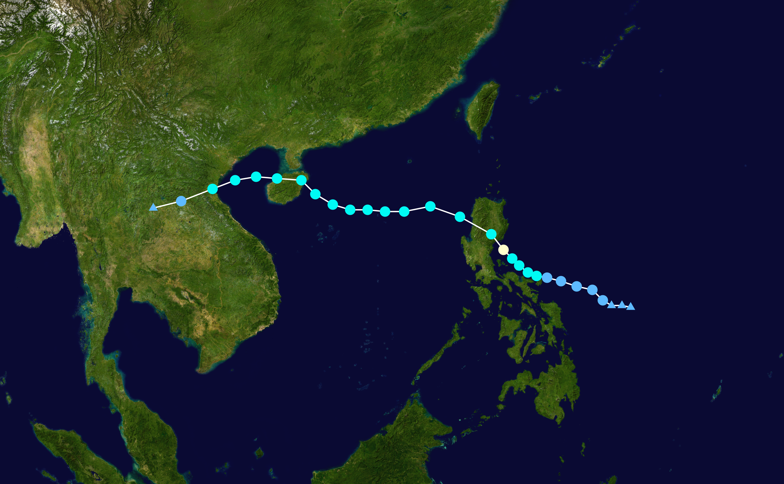 Track map of Severe Tropical Storm Nock-ten of the 2011 Pacific typhoon season. The points show the location of the storm at 6-hour intervals. The colour represents the storm's maximum sustained wind speeds as classified in the Saffir–Simpson scale (see below), and the shape of the data points represent the nature of the storm, according to the legend below. Saffir–Simpson scale Tropical depression≤38 mph≤62 km/h Category 3111–129 mph178–208 km/h Tropical storm39–73 mph63–118 km/h Category 4130–156 mph209–251 km/h Category 174–95 mph119–153 km/h Category 5≥157 mph≥252 km/h Category 296–110 mph154–177 km/h Unknown Storm type Tropical cyclone Subtropical cyclone Extratropical cyclone / Remnant low / Tropical disturbance / Monsoon depression